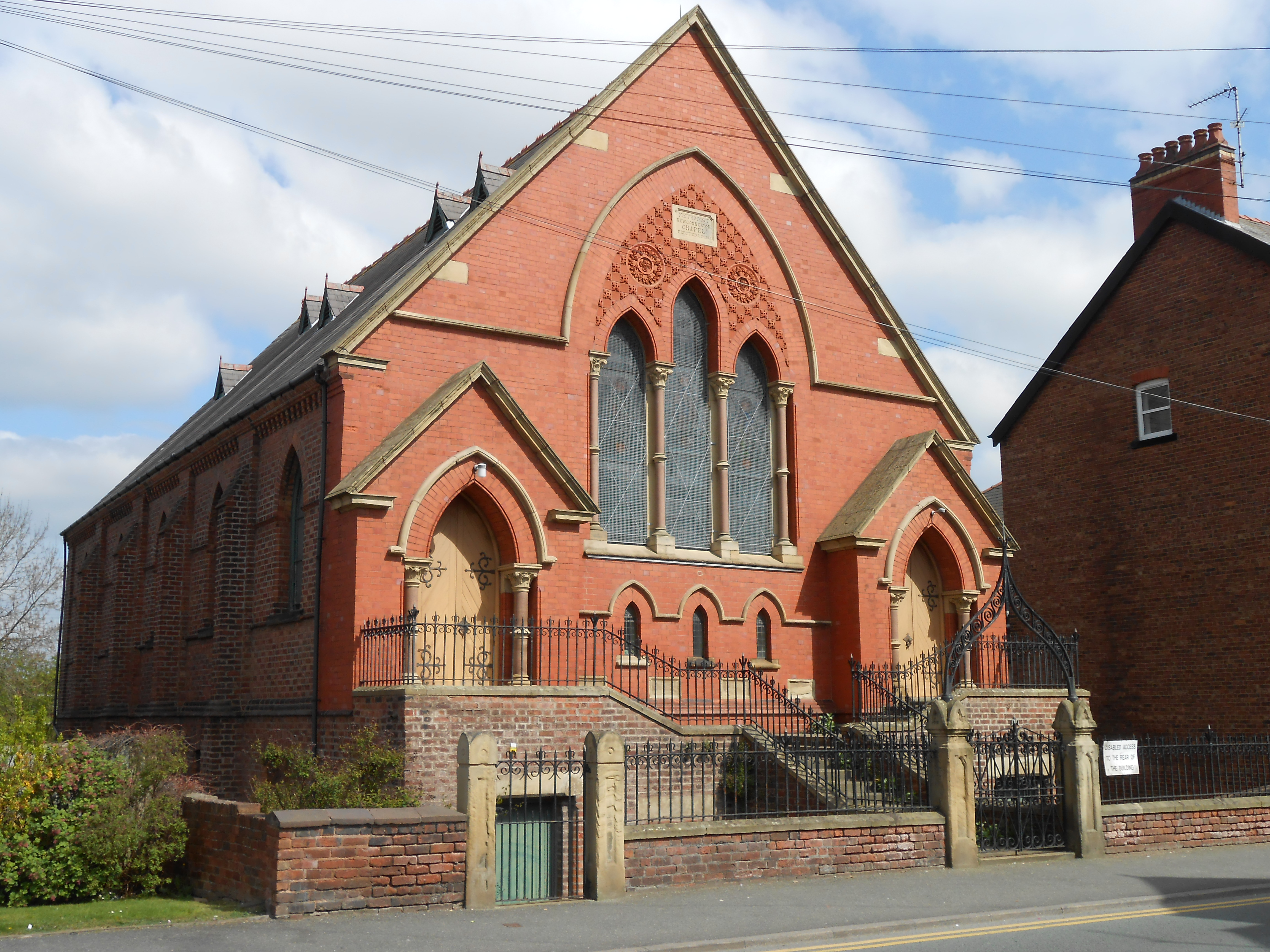 Methodist New Connexion Chapel, High Street, Connah's Quay, Flintshire, Wales.